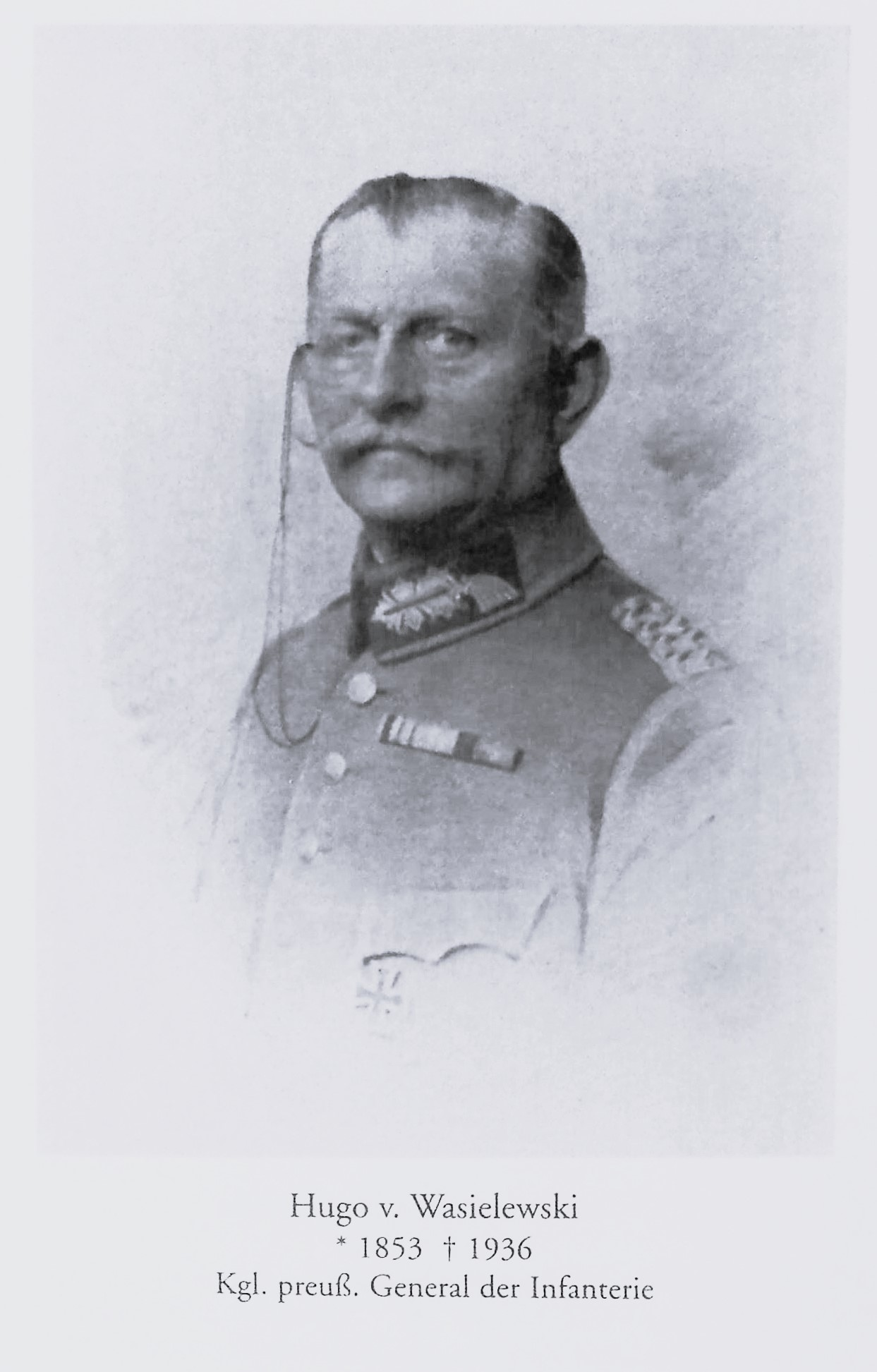 portrait of Hugo von Wasielewski (1853–1936)/ General of the Infantry